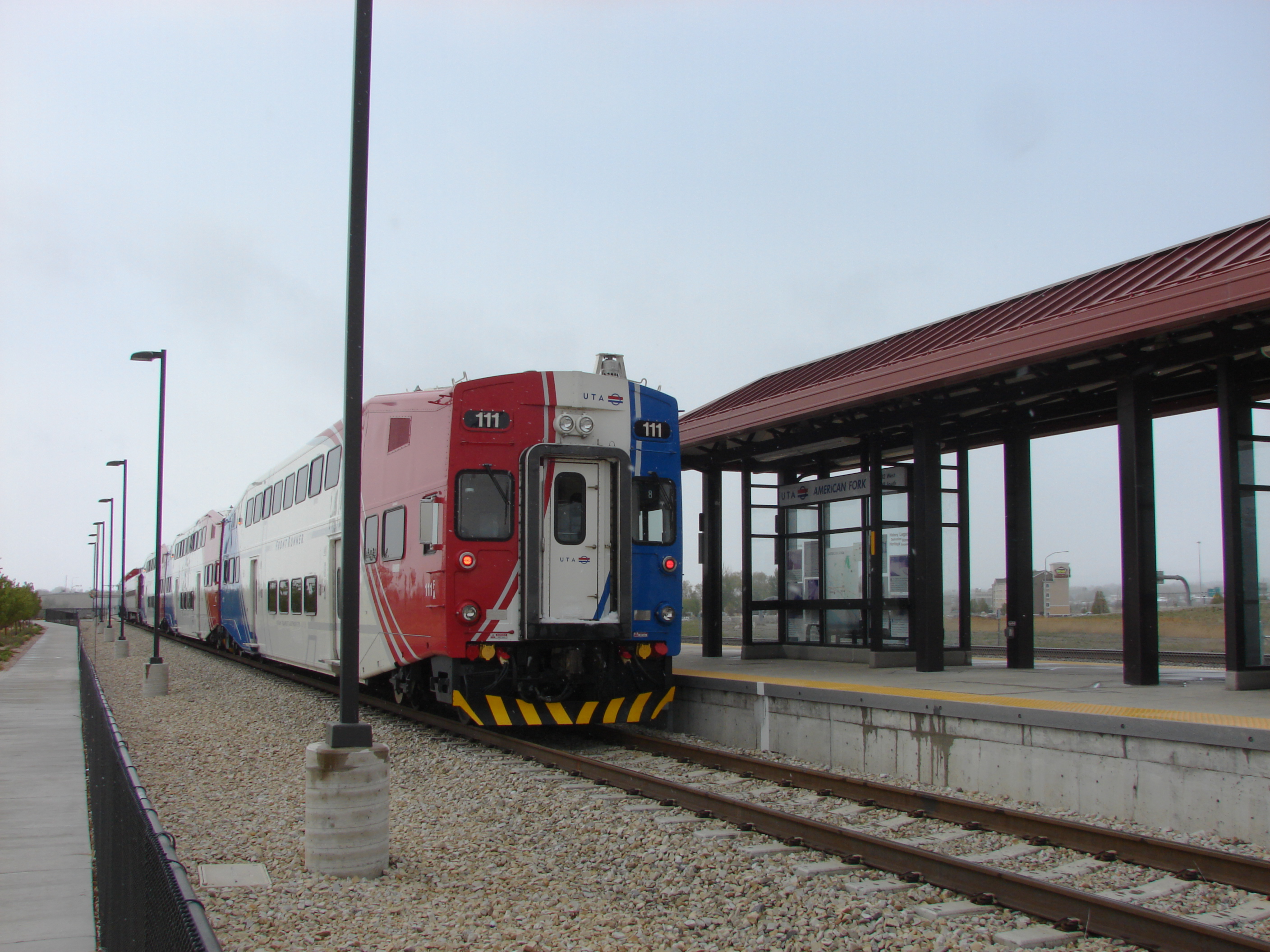 The rear of a northbound FrontRunner train departing the American Fork Station